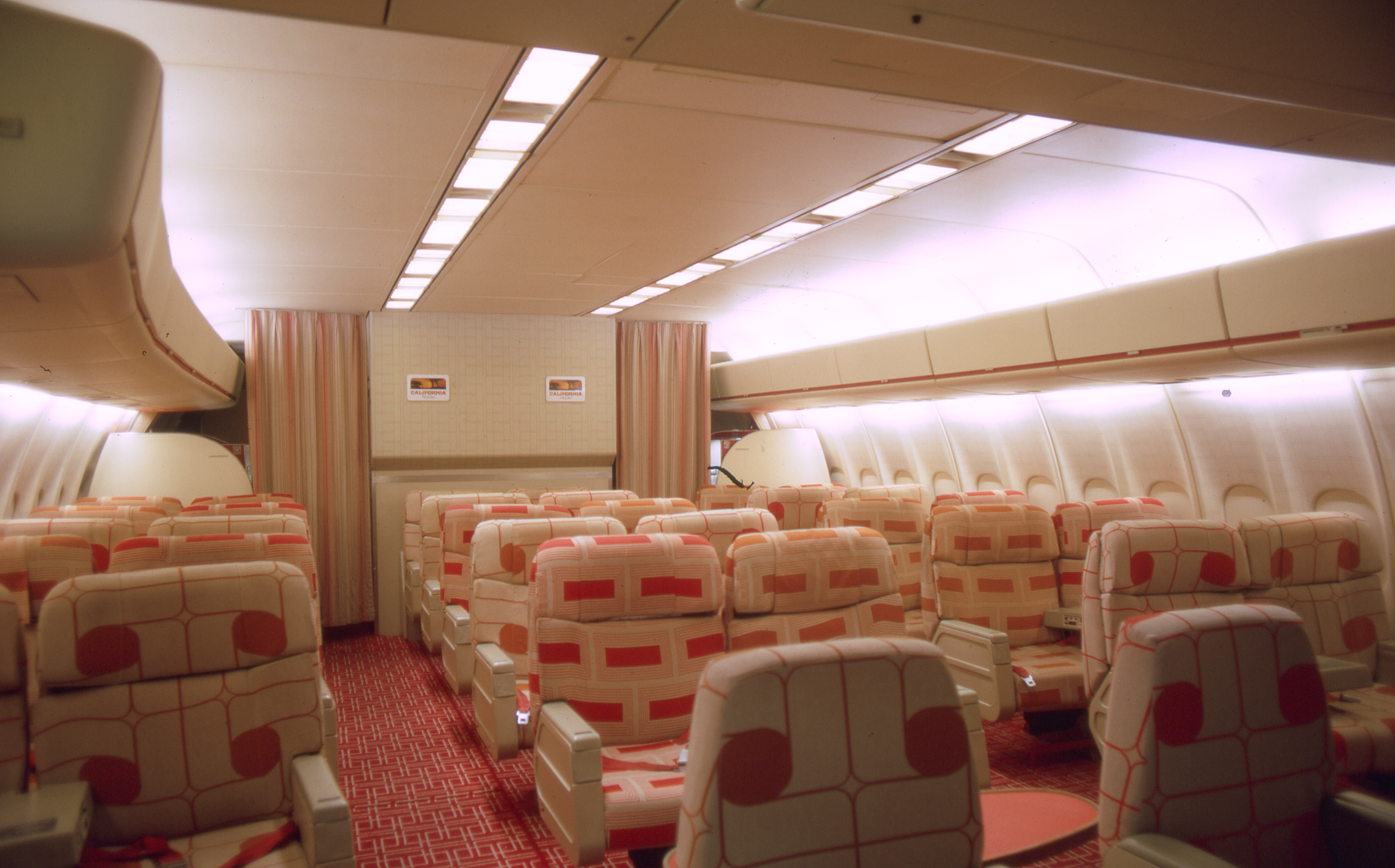 First class cabin of a Continental Airlines McDonnell Douglas DC-10